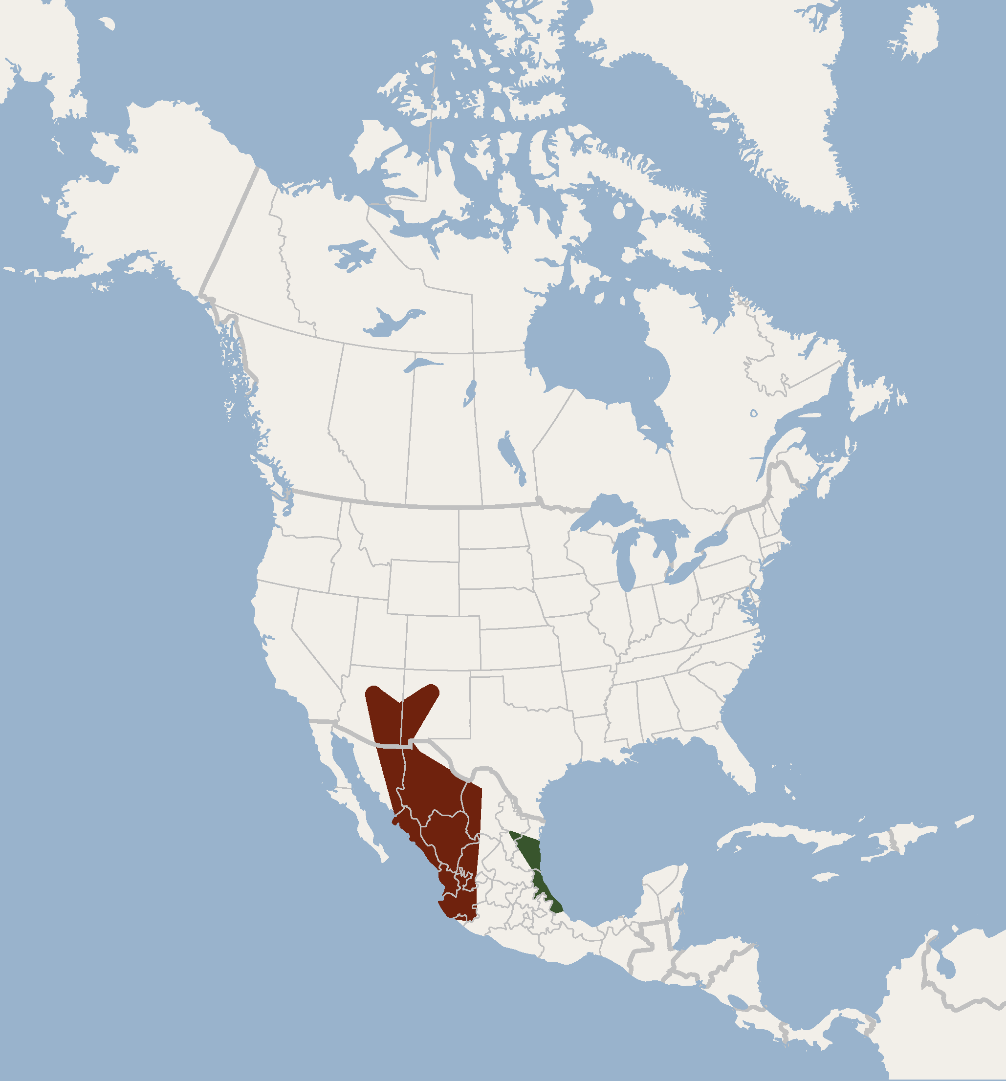 Geographical distribution of Myotis auriculus according to Kays & Wilson, 2009